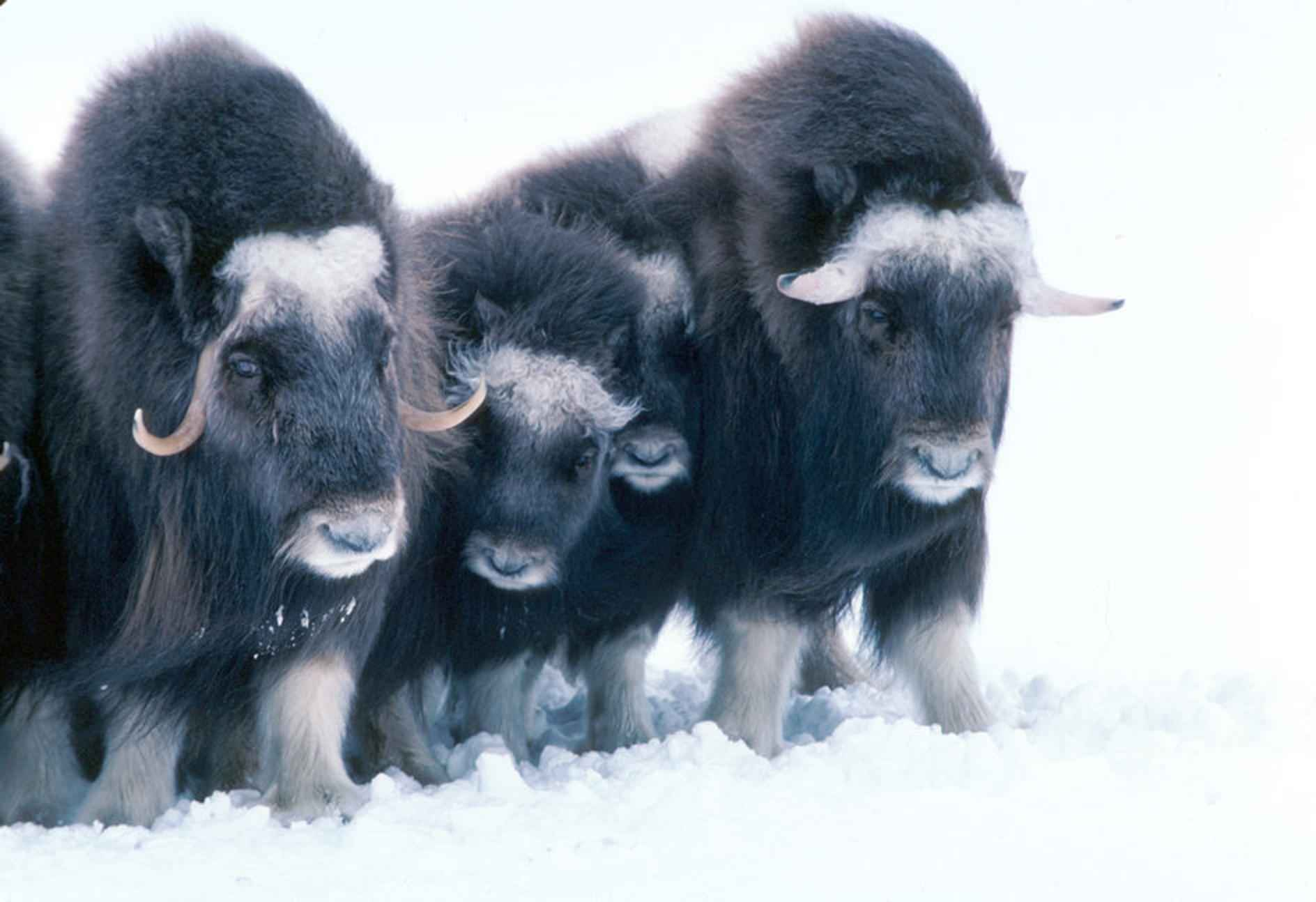 Image title: Three muskoxen animals Image from Public domain images website